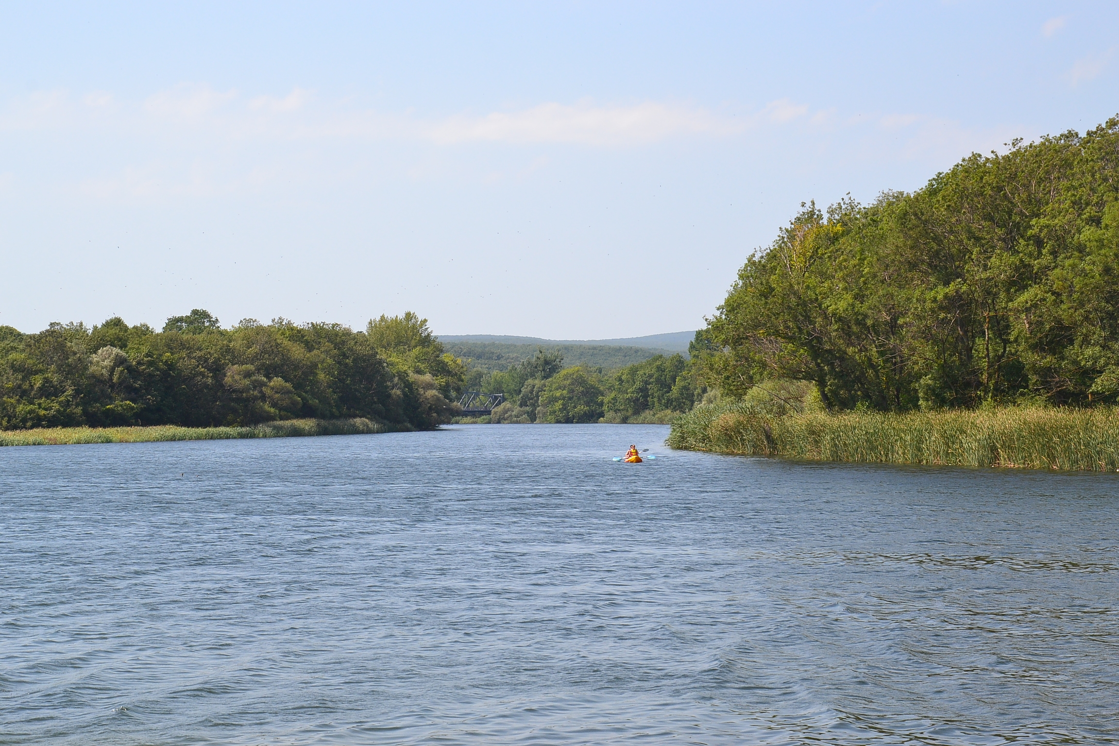 Veleka river (Велека) in Sinemorec